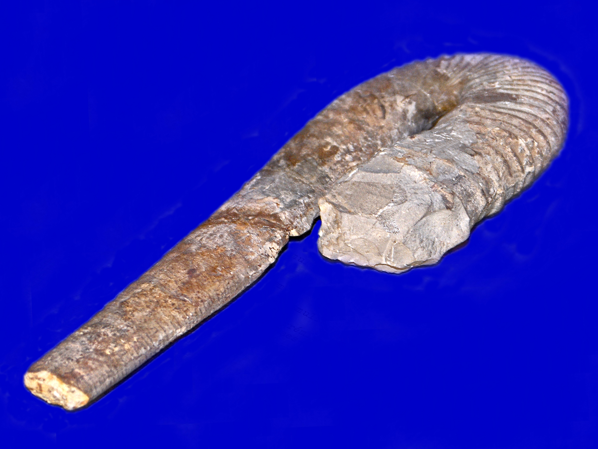 Hamulina astieri from southern Alps, on display at Gallery of Paleontology and Comparative Anatomy, Paris.